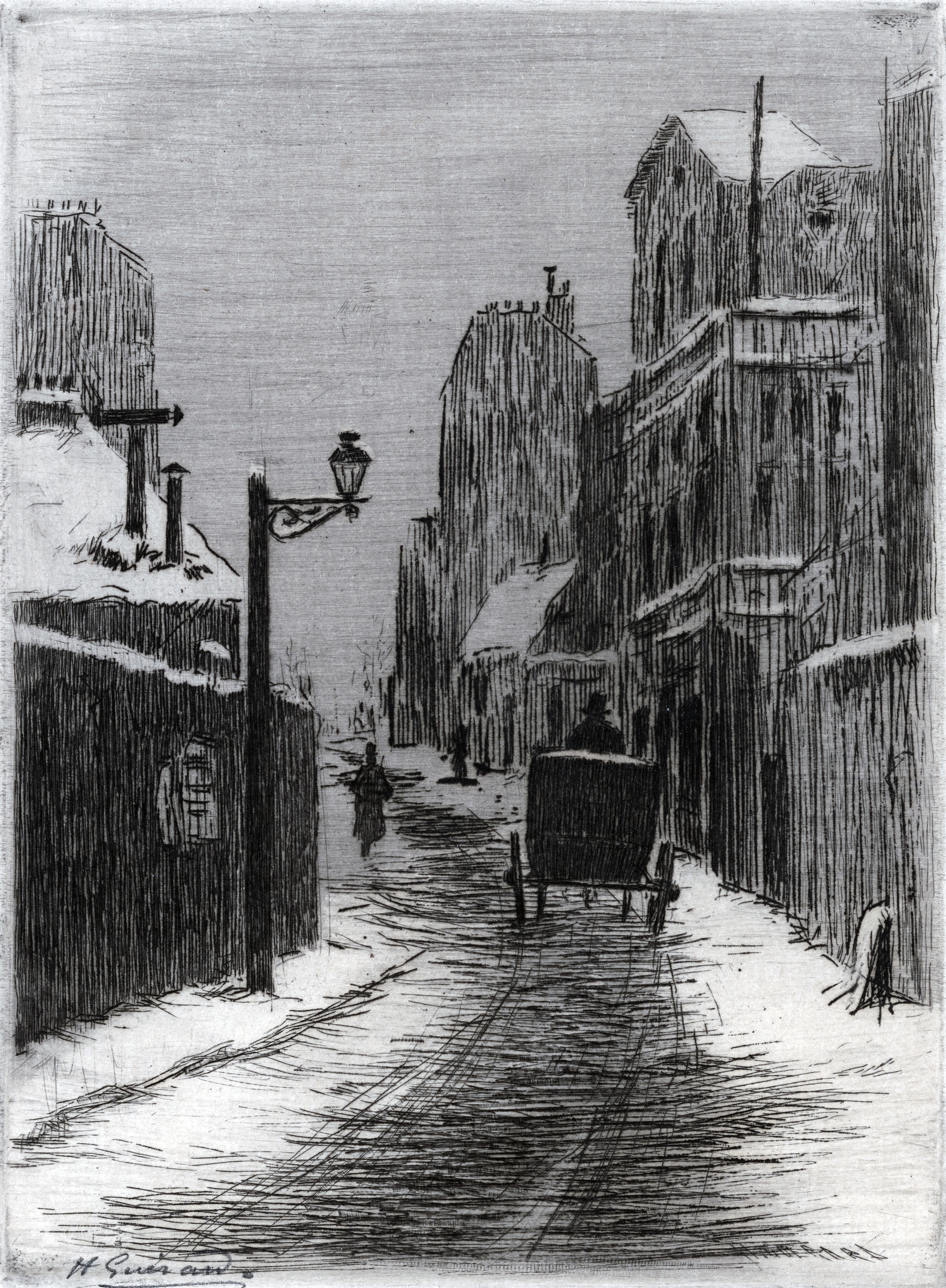 Rue Chevert, Paris, France